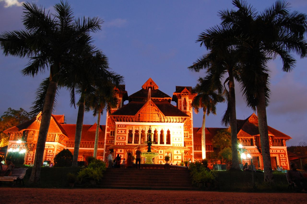 Night shot taken with a tabletop tripod, and me lying on the floor :) Refer